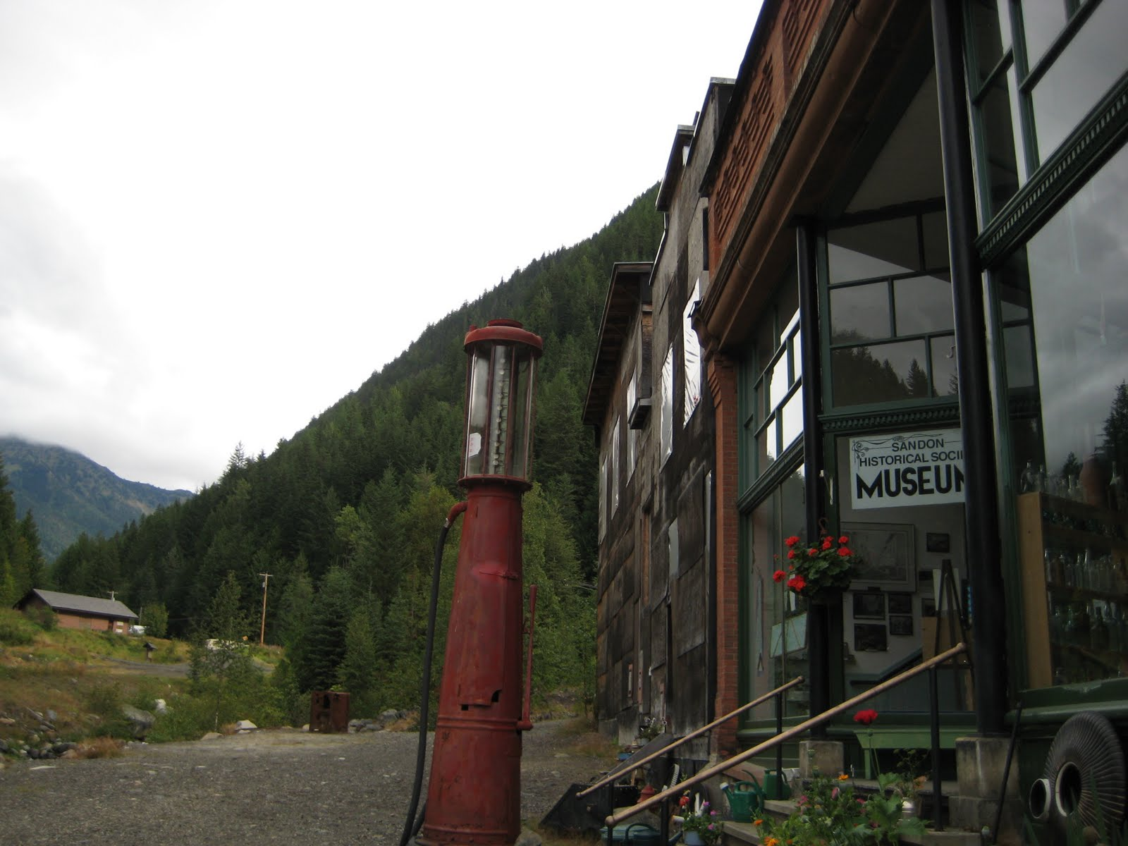 Sandon Ghost Town museum, British Columbia